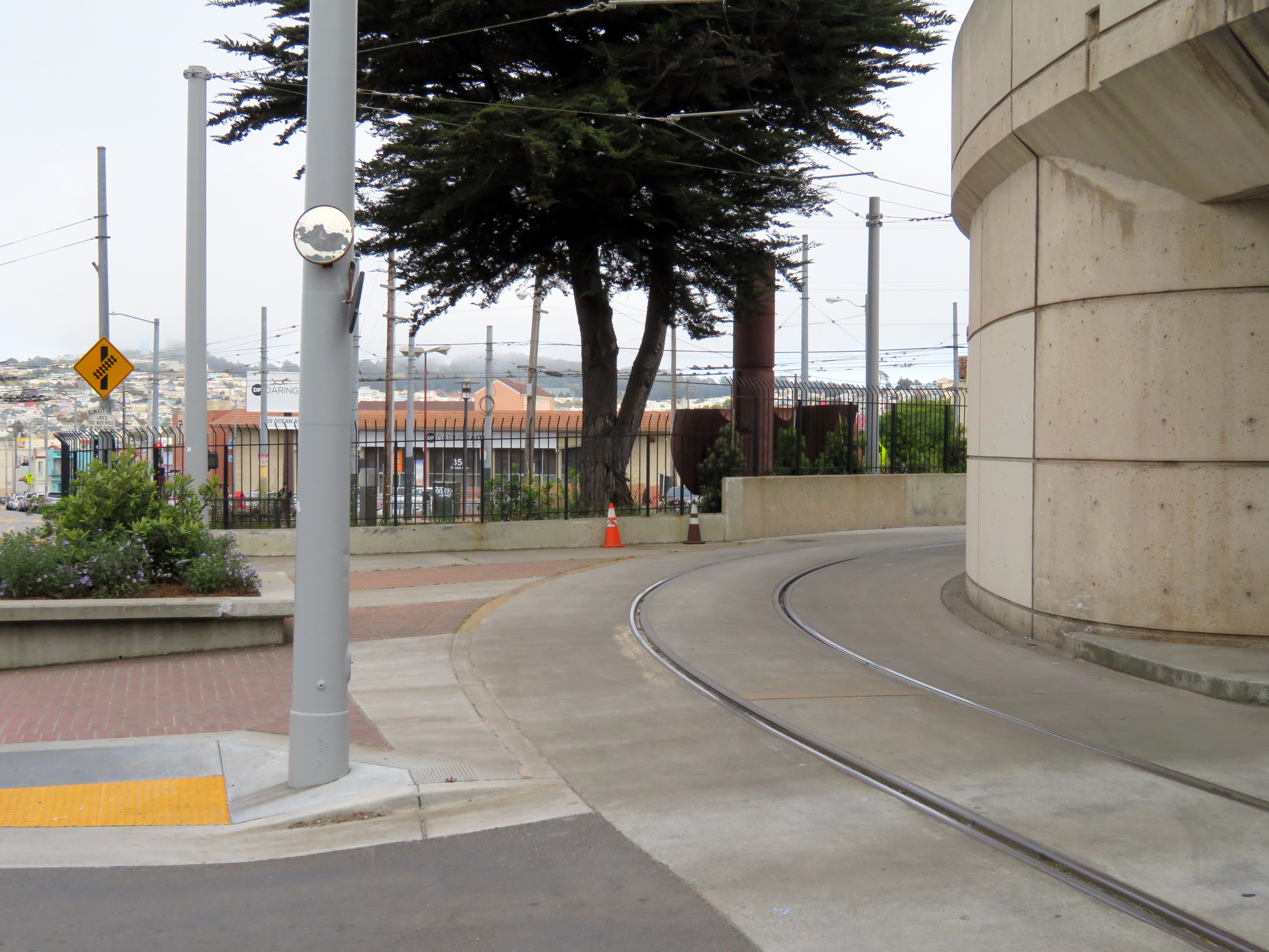 Former K Ingleside stop inside the yard loop near San Jose and Ocean, closed in 2015, photographed in May 2018